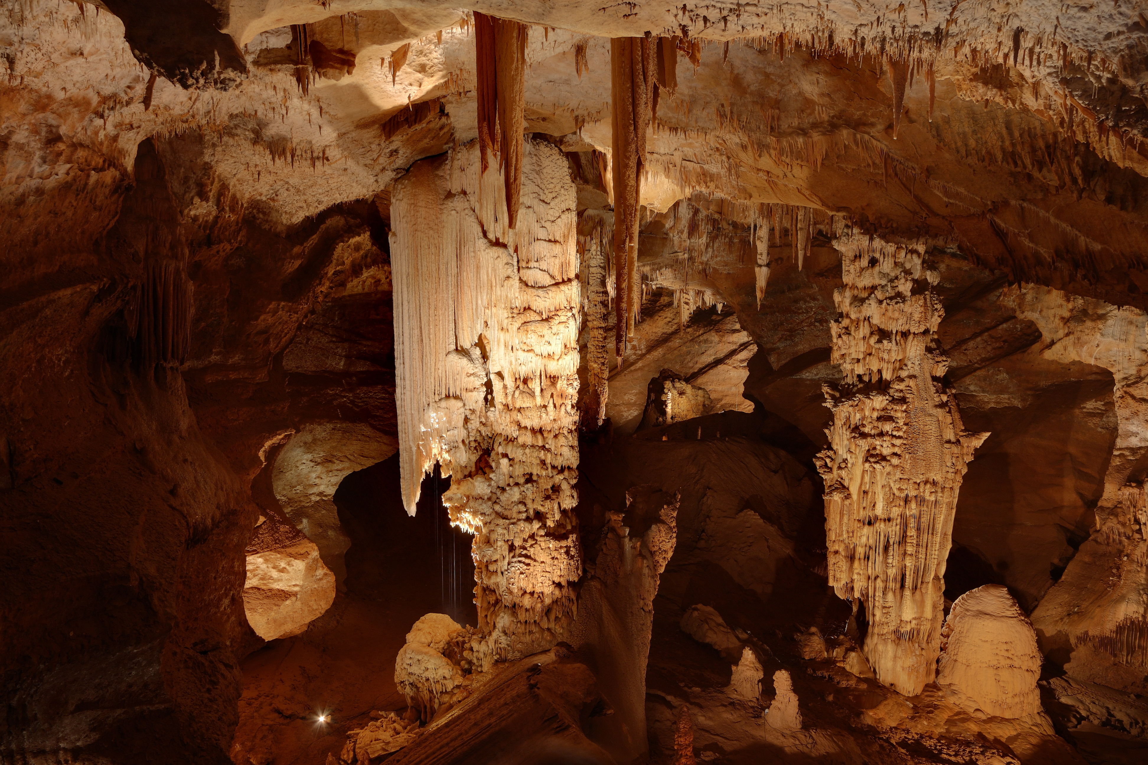 Red room of the Aven d'Orgnac, Ardèche, France.